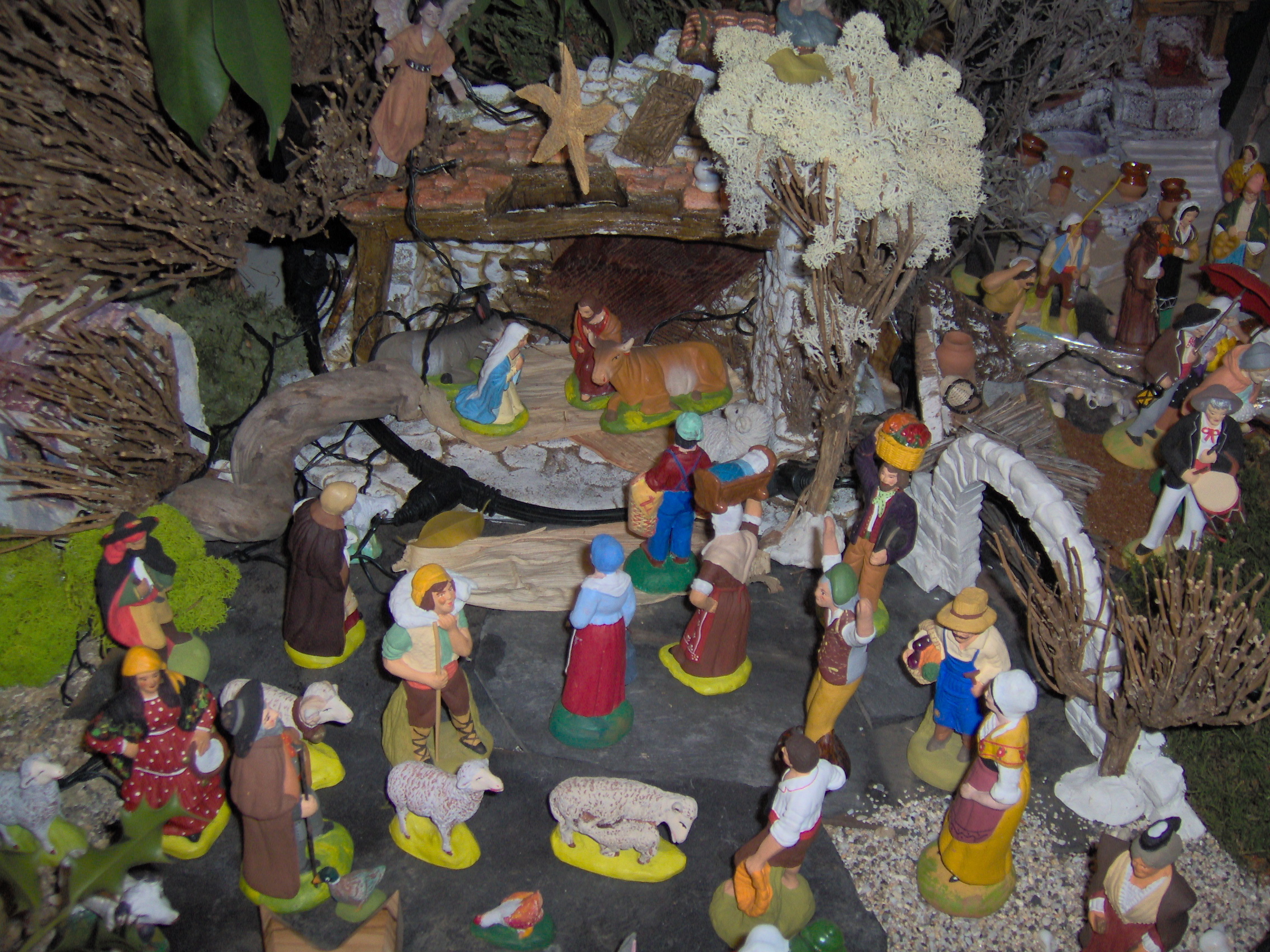 Typical Provençal Nativity scene